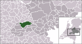 Locator map of Dutch municipalities in Gelderland (LocatieBuren.png)